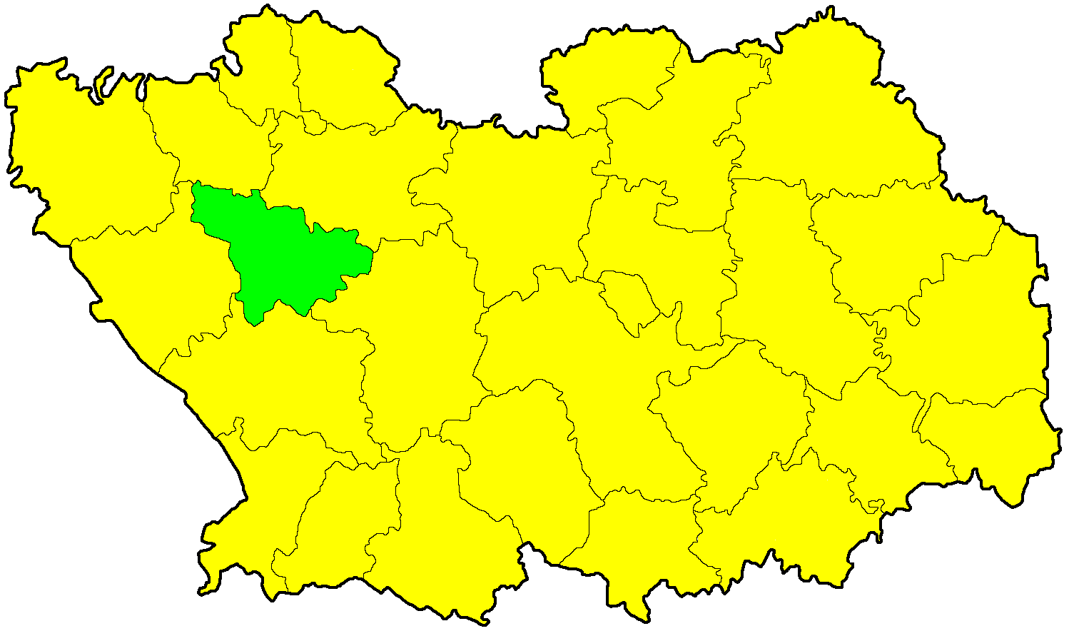 Pachelmsky District, Penza Oblasty, Russia